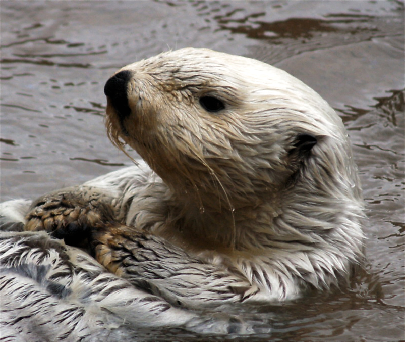 Sea Otter in Seattle Washington Area